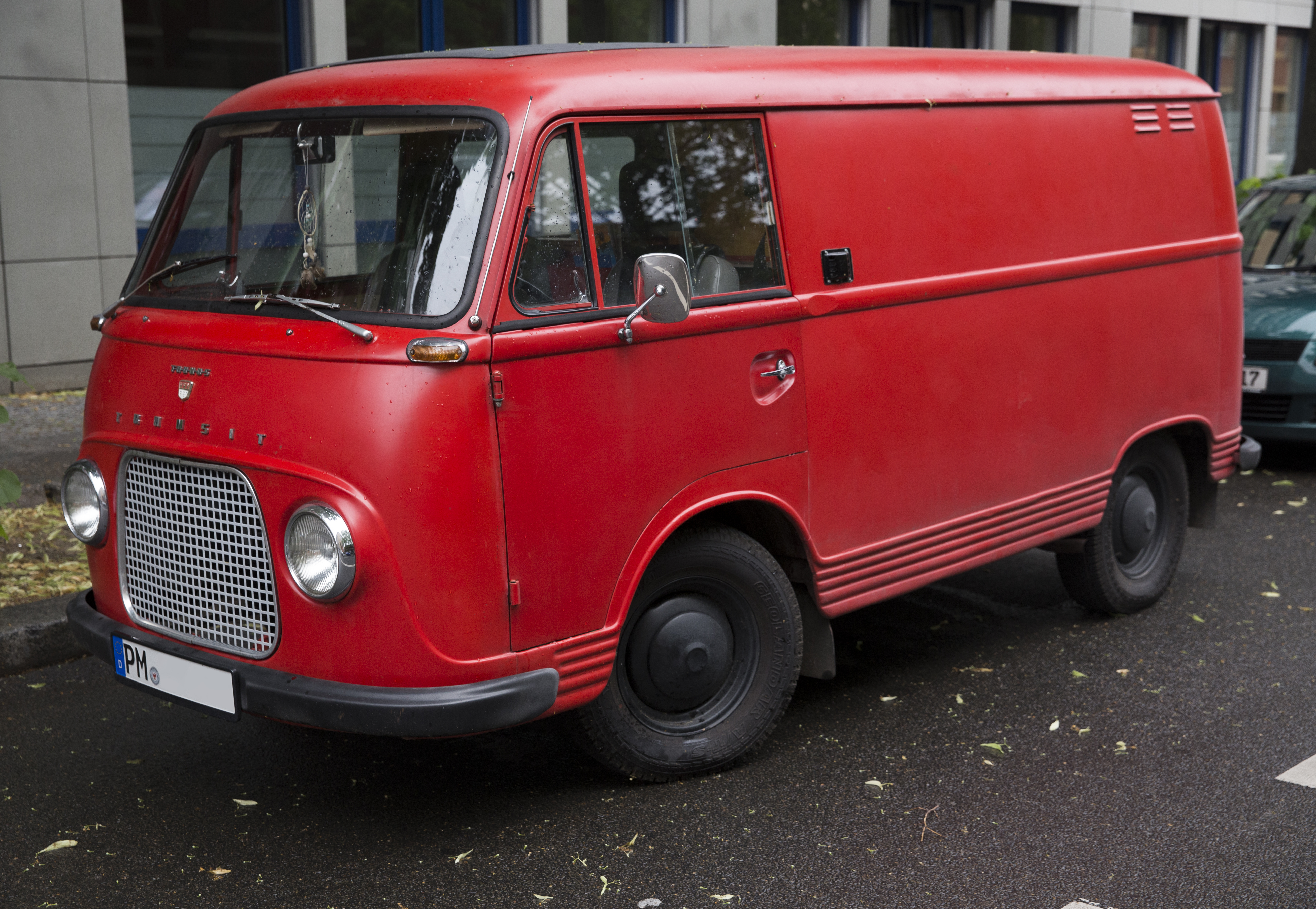 A 1965 Ford Taunus Transit in Berlin, near Checkpoint Charlie.